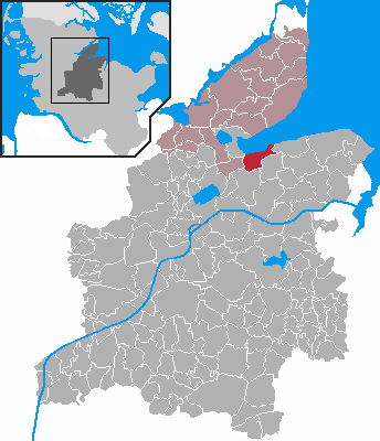 Locator maps of municipalities in Schleswig-Holstein - District Rendsburg-Eckernförde